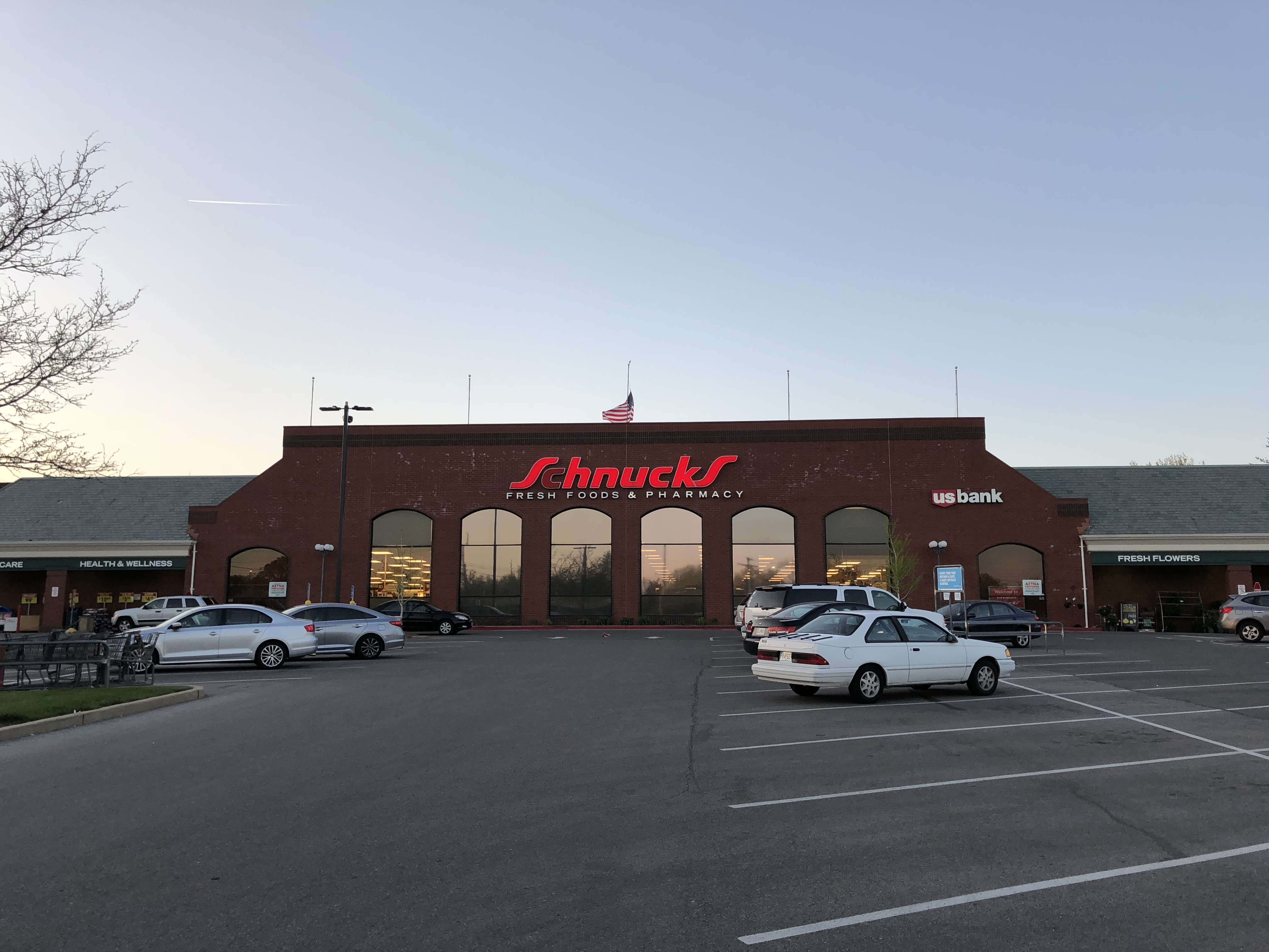 A picture of a Schnucks market in Kirkwood, Mo. at dusk.